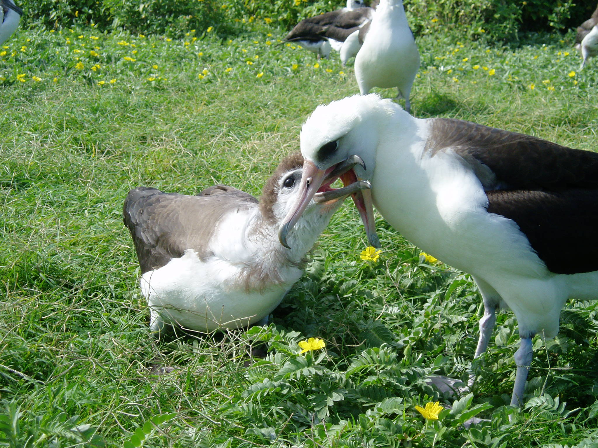 Laysan Albatross feeding its chick in Papahanaumokuakea Marine National Monument. The parents regurgitate squid and fish eggs to feed their young. Albatrosses are rarely seen on land, preferring to stay out on the ocean except to mate and raise their babies.